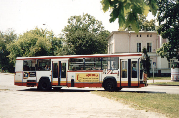 Berliet PR100MI bus (#191) in Piła, Poland. MZK Piła operator.